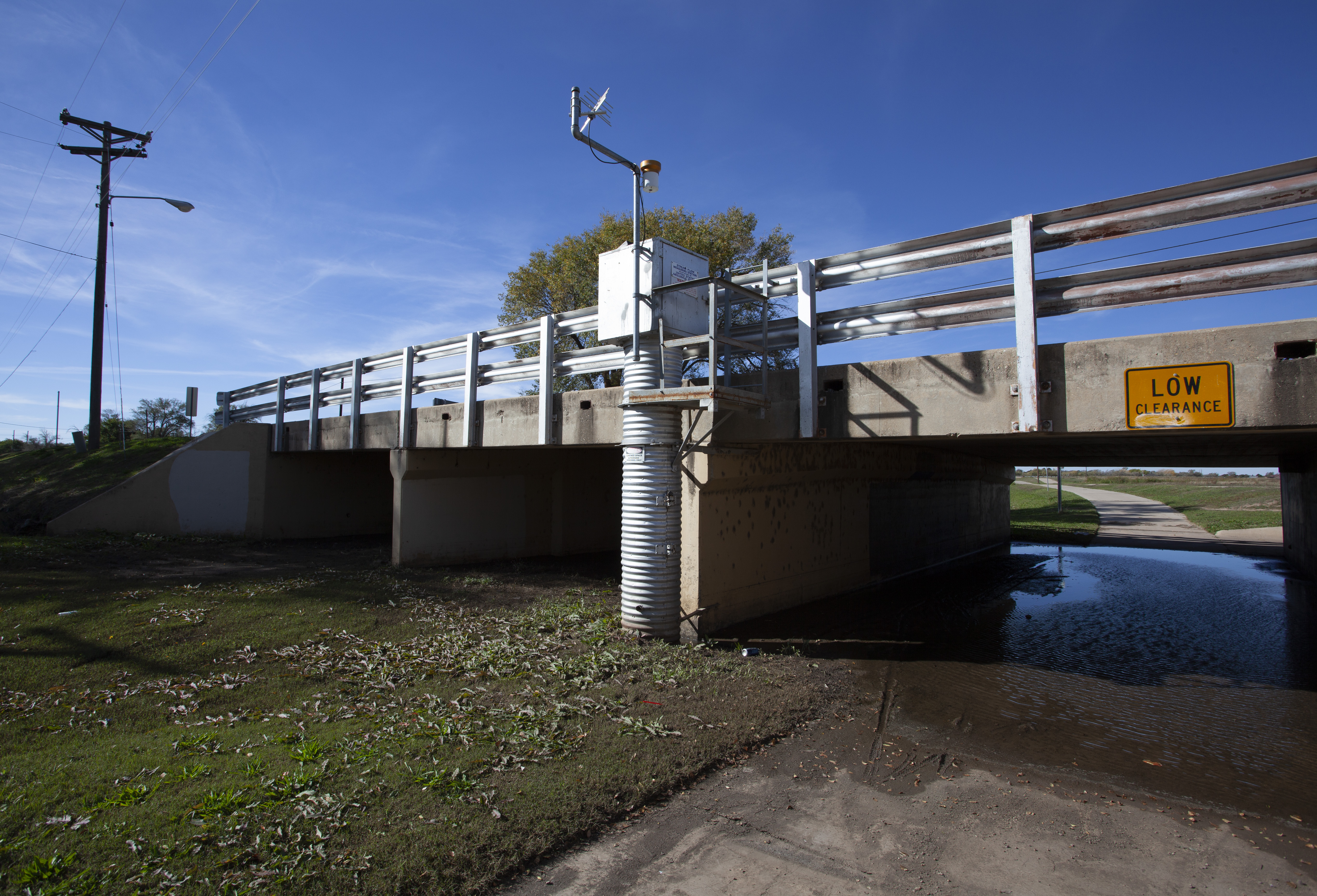 Gaging station that records streamflow of Running Water Draw in Plainview, Texas.